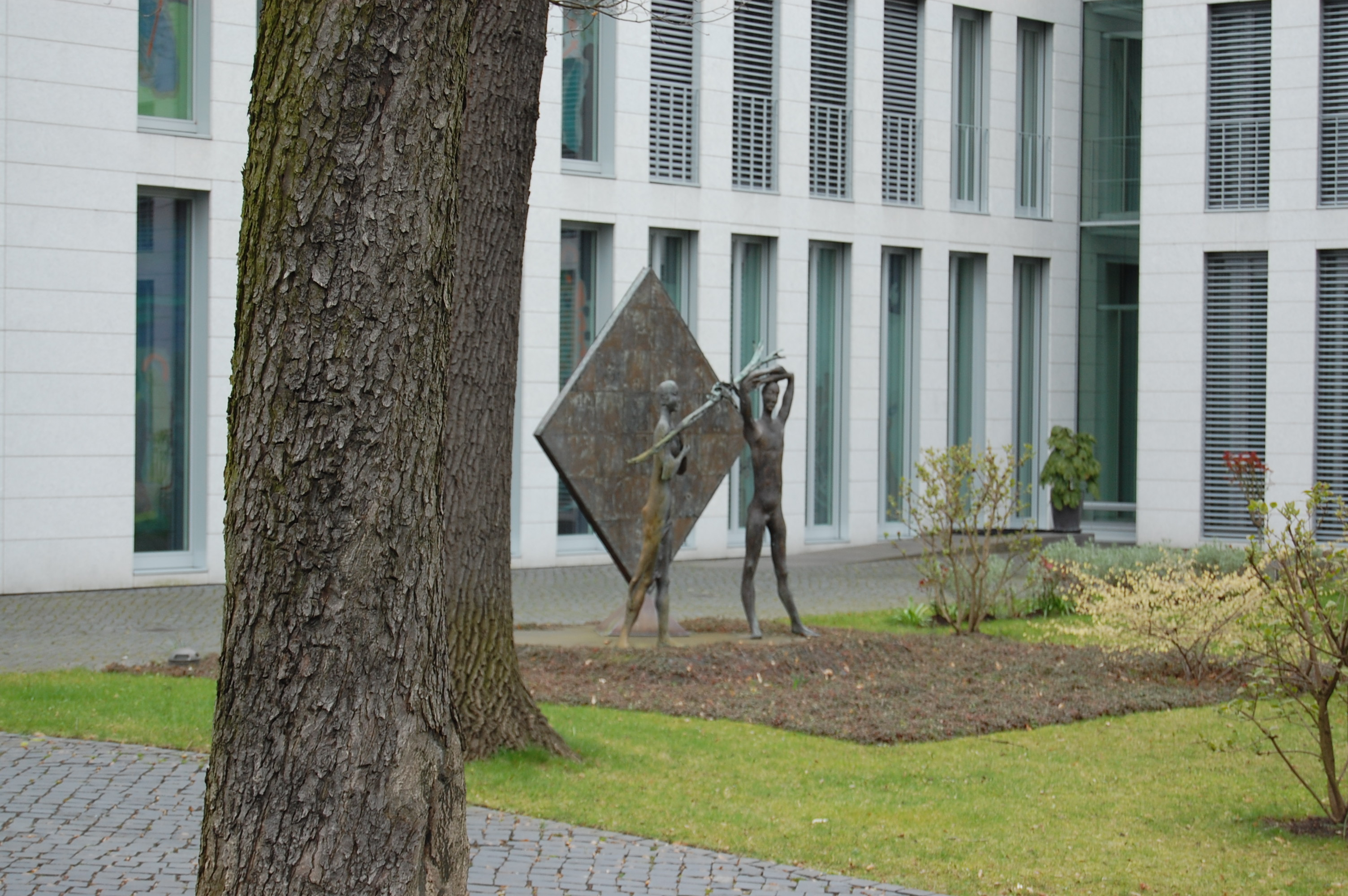 Apostolic nunciature (Embassy of Vatican) in Berlin